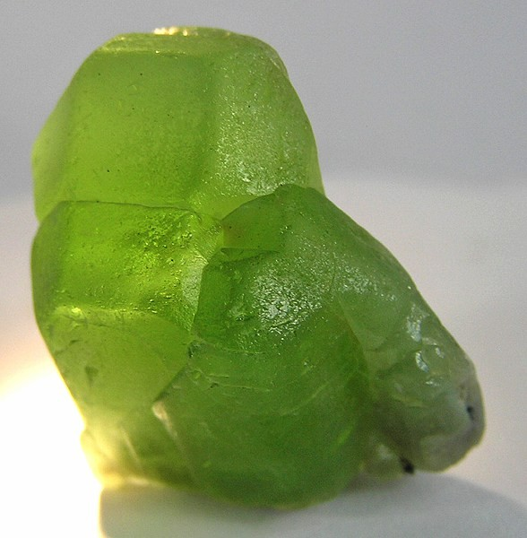 Forsterite (Var.: Olivine) Locality: Sapat Gali (Soppat; Suppat; Sumpat), Manshera, Naran-Kagan Valley, Kohistan District, North-West Frontier Province, Pakistan (Locality at ) Size: 2.6 x 2.4 x 1.6 cm. A "classic" Sapat peridot crystal - good transparency, the classic silky luster, and smooth, silky faces. Weighs 16 grams.